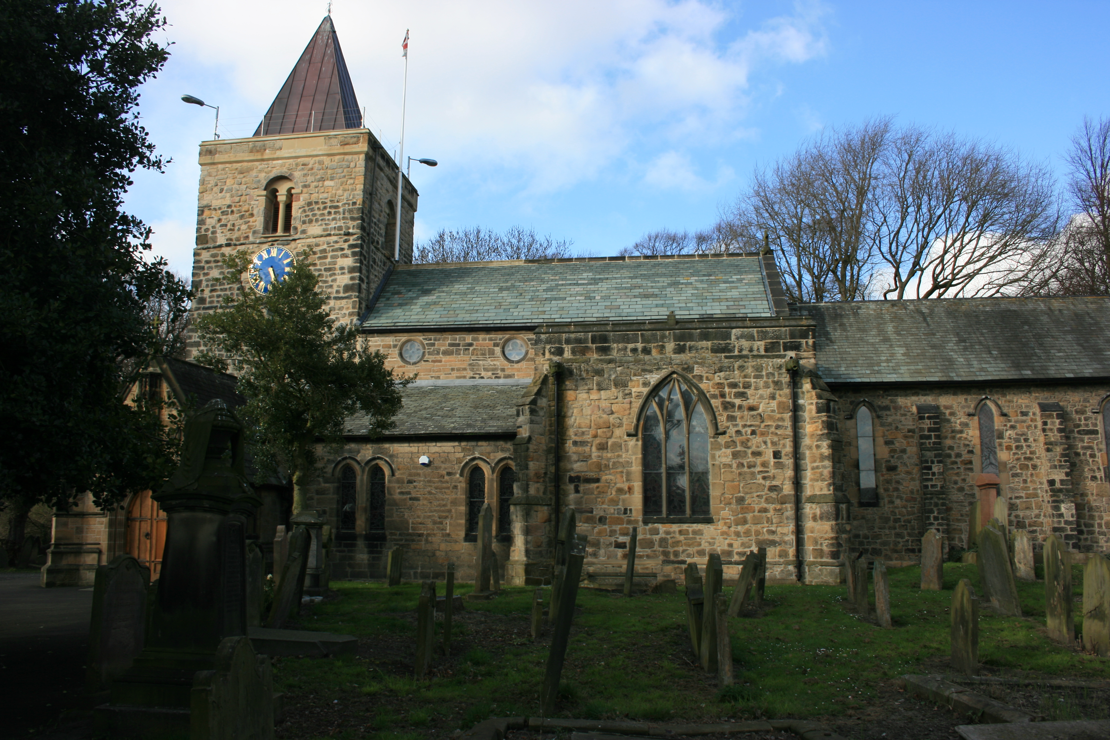 St Michael and All Angel's church in Newburn